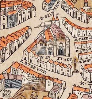 St-Eustache church and rue du Jour on the plan de Truschet and Hoyau (1550).